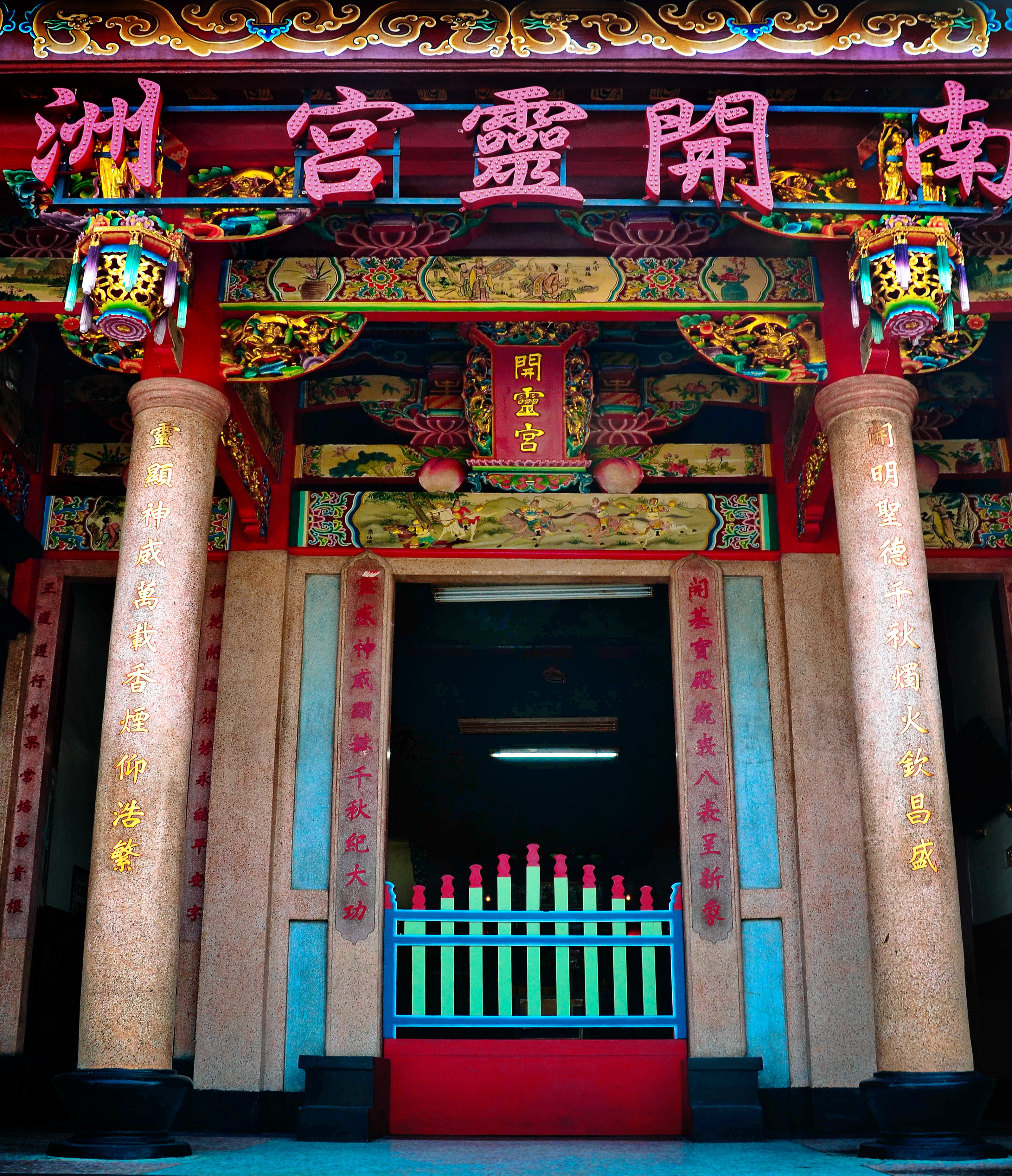 Nanzhou Kailing Temple, Shanshang District, Tainan City. Taiwan.